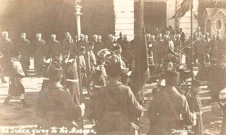 Sultan going to the Mosque